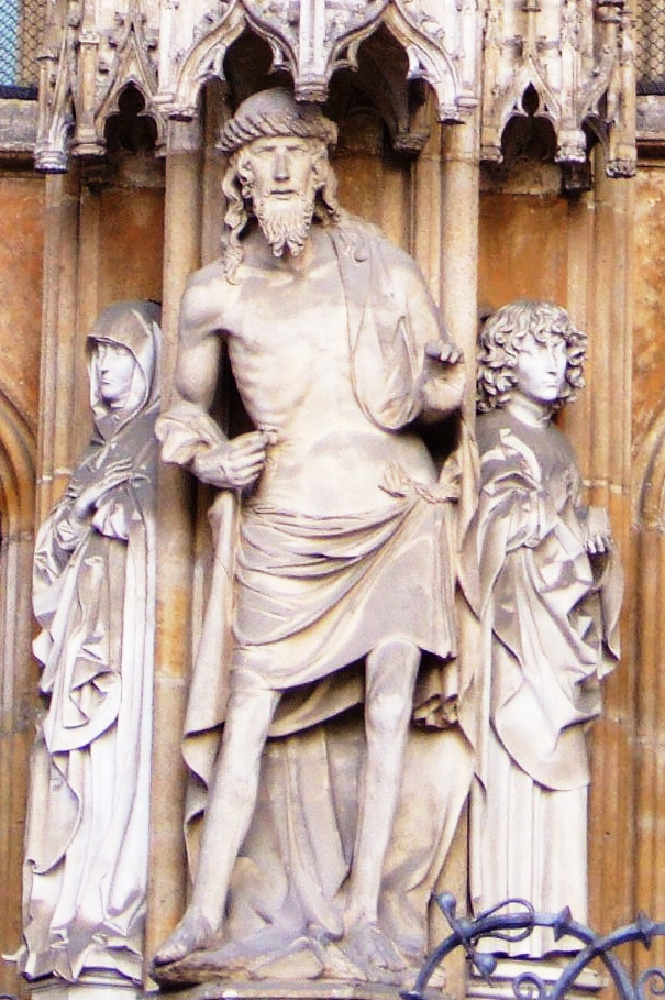 The Lutheran cathedral "Ulmer Münster" of Ulm/Germany: Man of Sorrows on the main portal, copy after the original by Hans Multscher